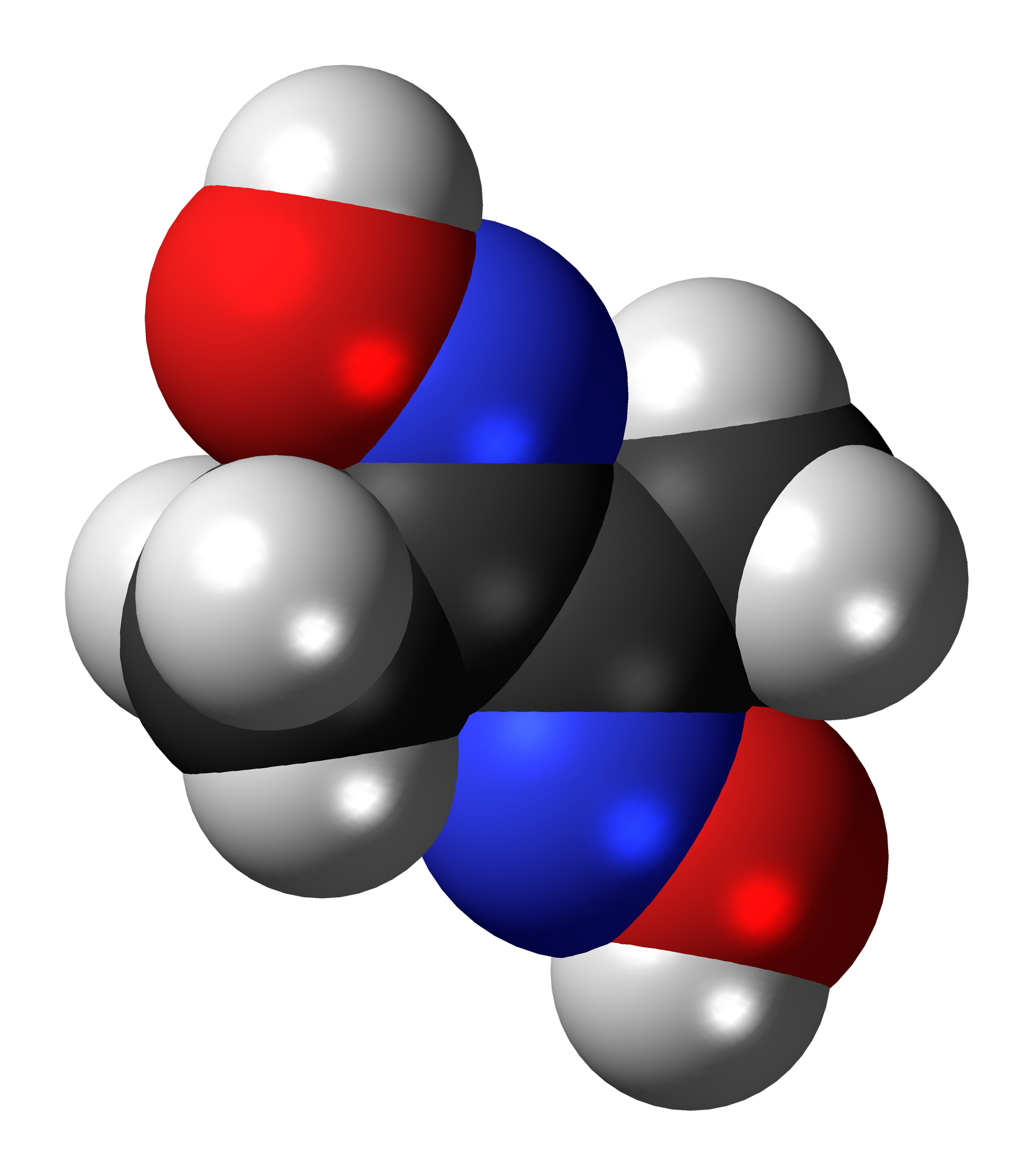 Ball-and-stick model of the dimethylglyoxime molecule, also known as diacetyl dioxime, an oxime derivative of diacetyl. Colour code: Carbon, C: black Hydrogen, H: white Oxygen, O: red Nitrogen, N: blue